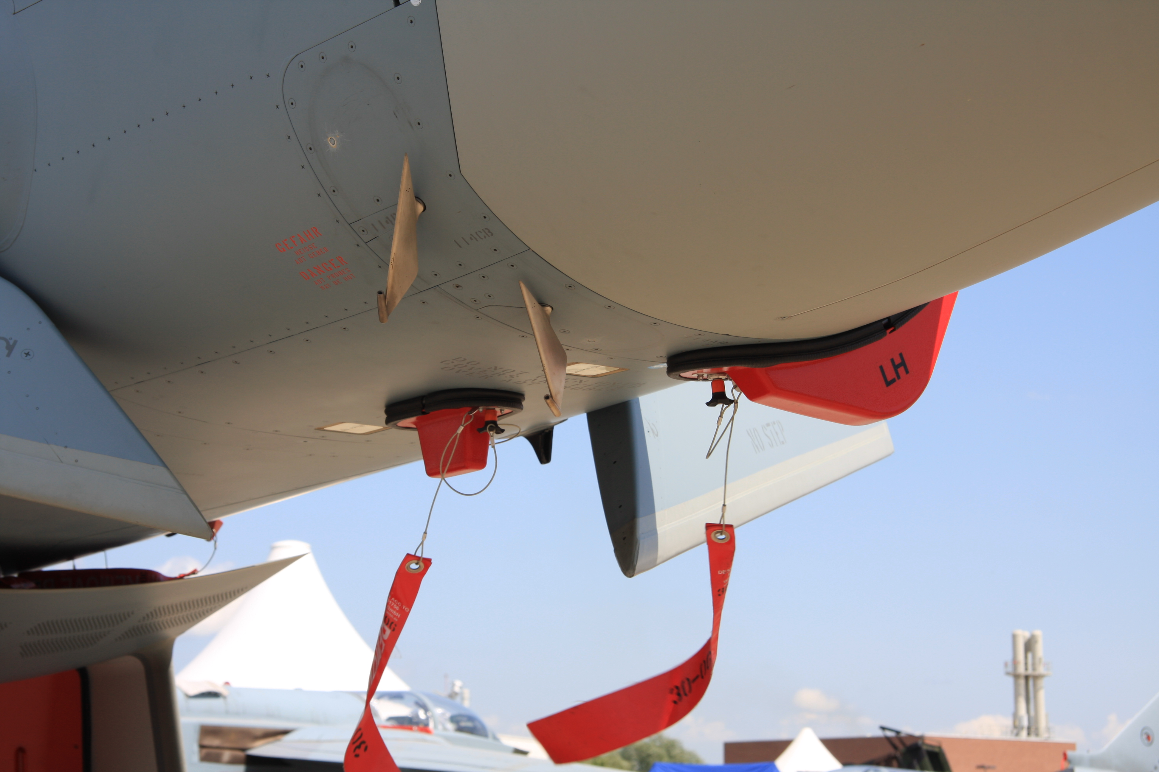 Antennas of an Eurofighter of the German Luftwaffe at Berlin Schönefeld Airport (picture taken during the International Air and Space Exhbition).